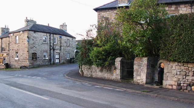 Stanegate, Newbrough. Shows the location of 1067281, with 251011 behind.